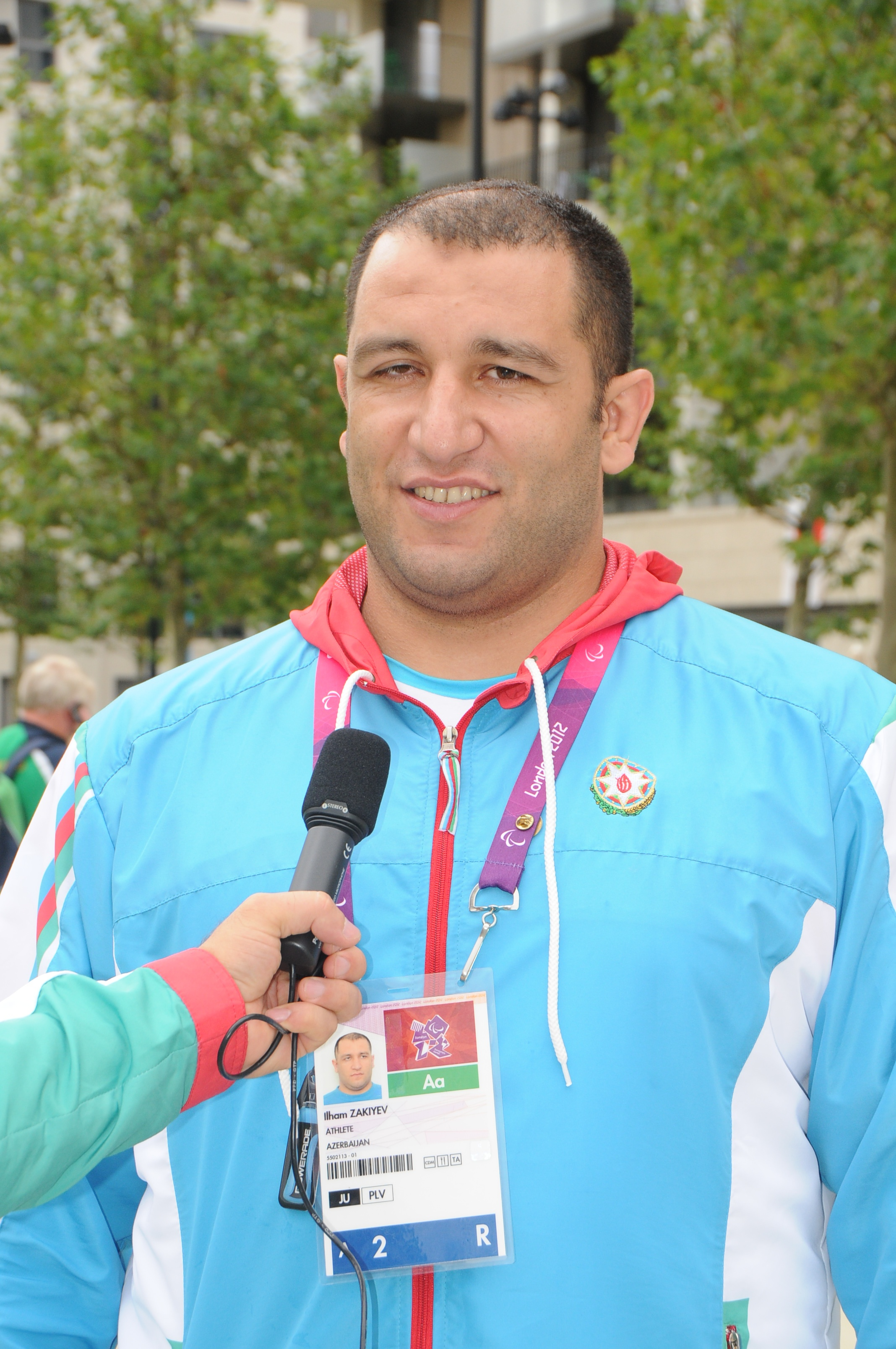 Ilham Zakiyev at the 2012 Summer Paralympics